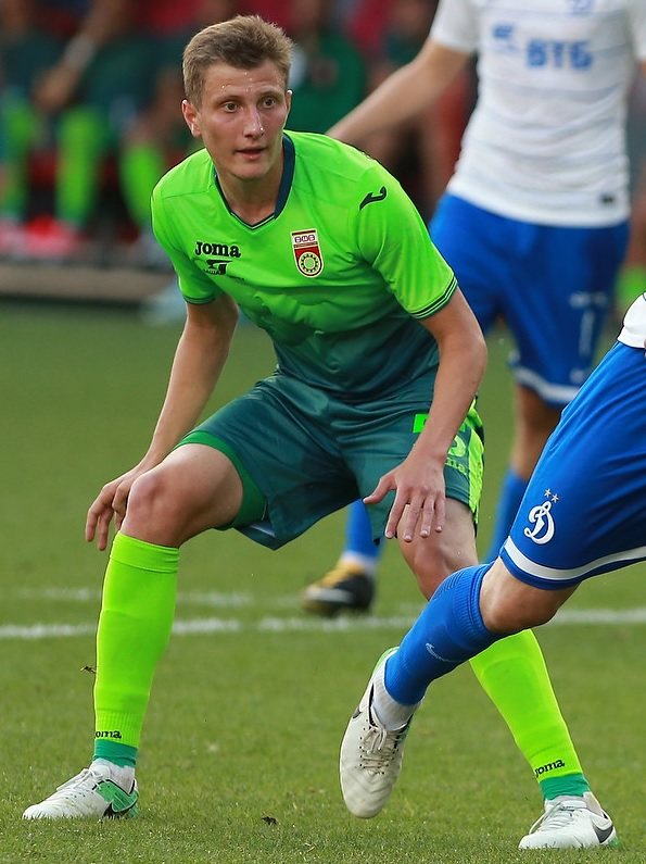 Jemal Tabidze with FC Ufa in a game against FC Dynamo Moscow.